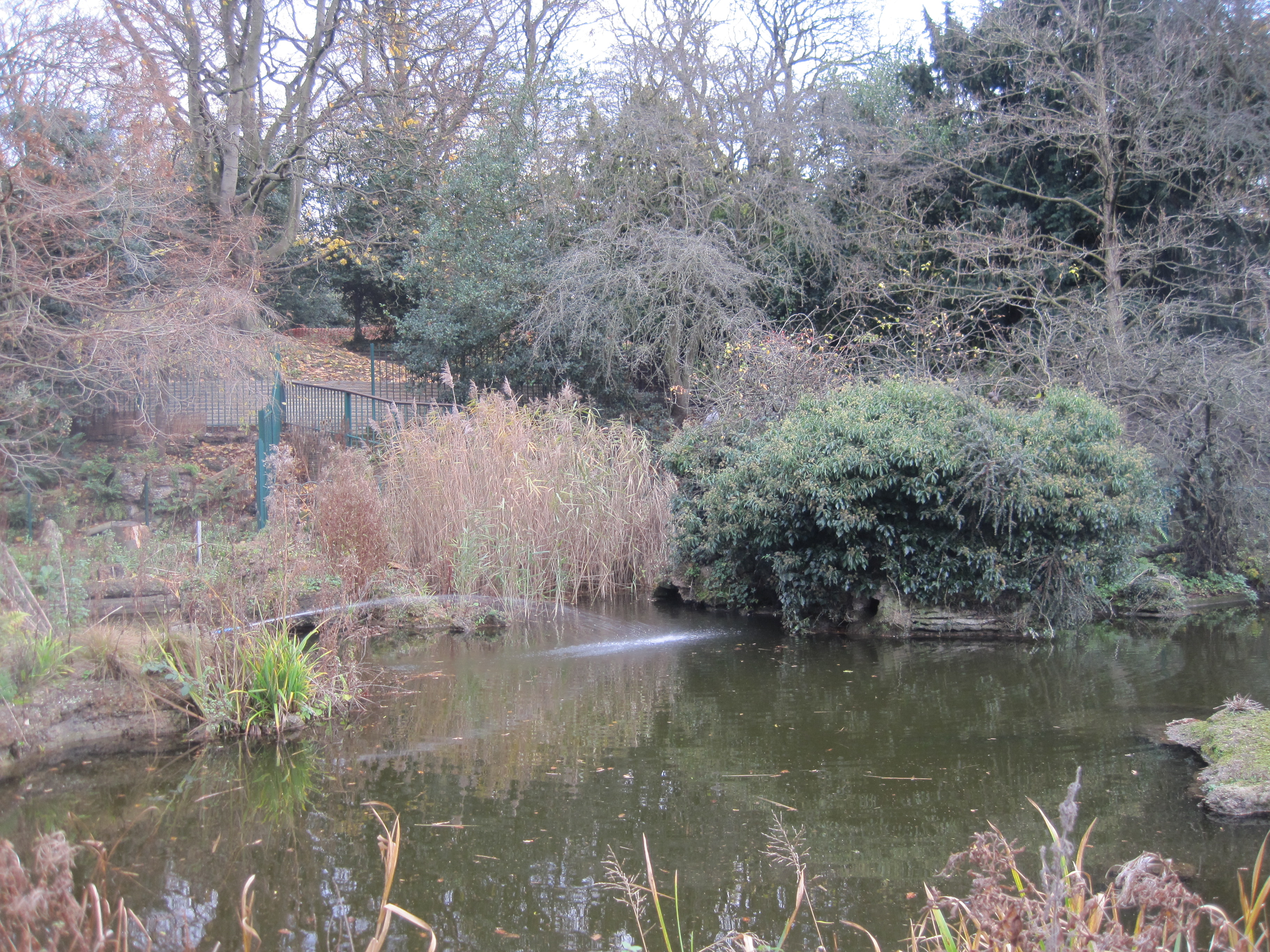 Ornamental pond in Avenue House Grounds, nature reserve in Finchley, Barnet, London